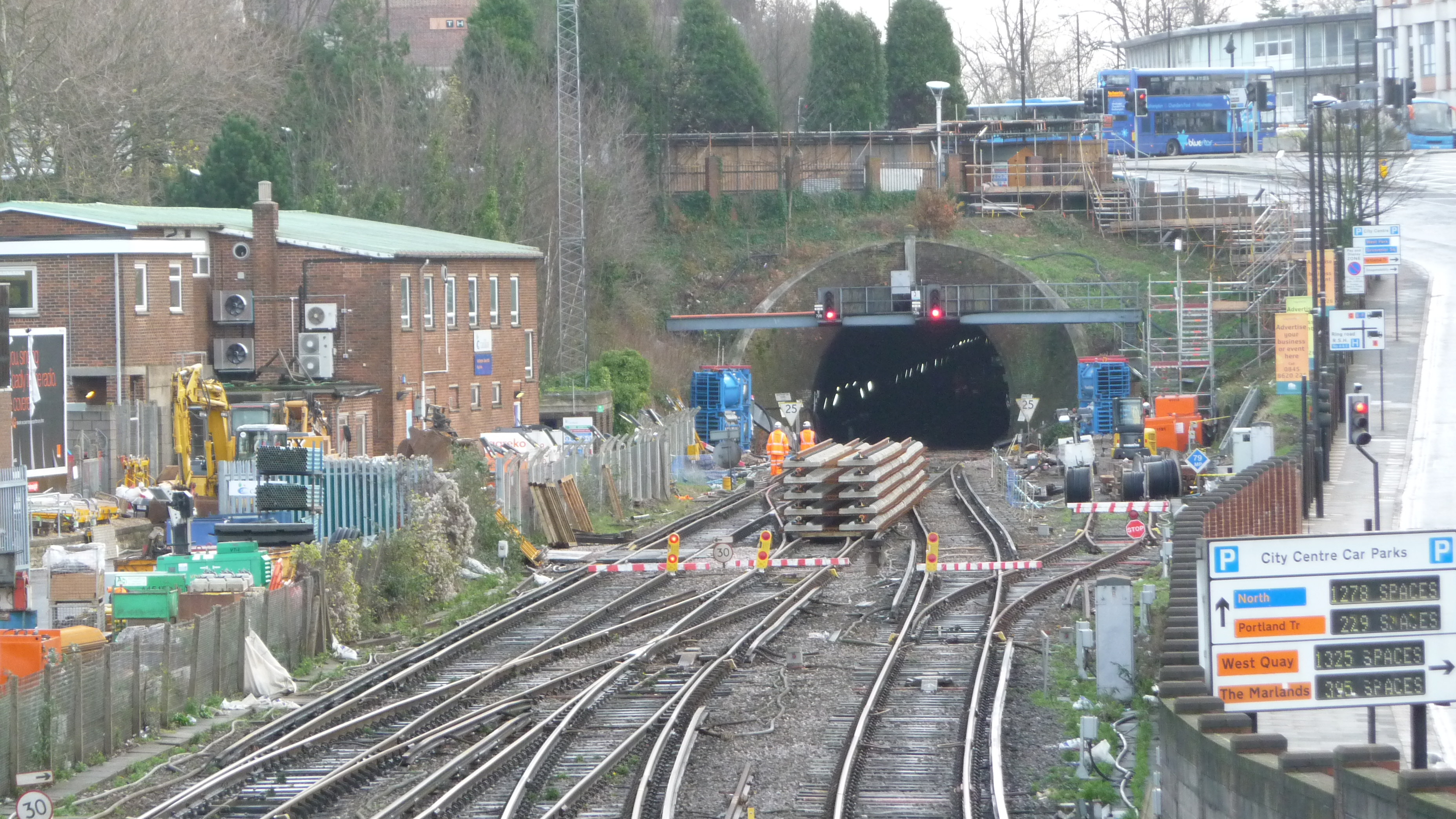 A view of the Southampton Civic Centre Tunnel engineering works, taken from the footbridge over Southampton Central station, looking at the mouth of the tunnel. Various bits of equipment and materials can be seen. The engineering works took place over the period of December 2009 to January 2010. Evening and weekend closures occurred first, and then the tunnel was completely closed over the Christmas period.